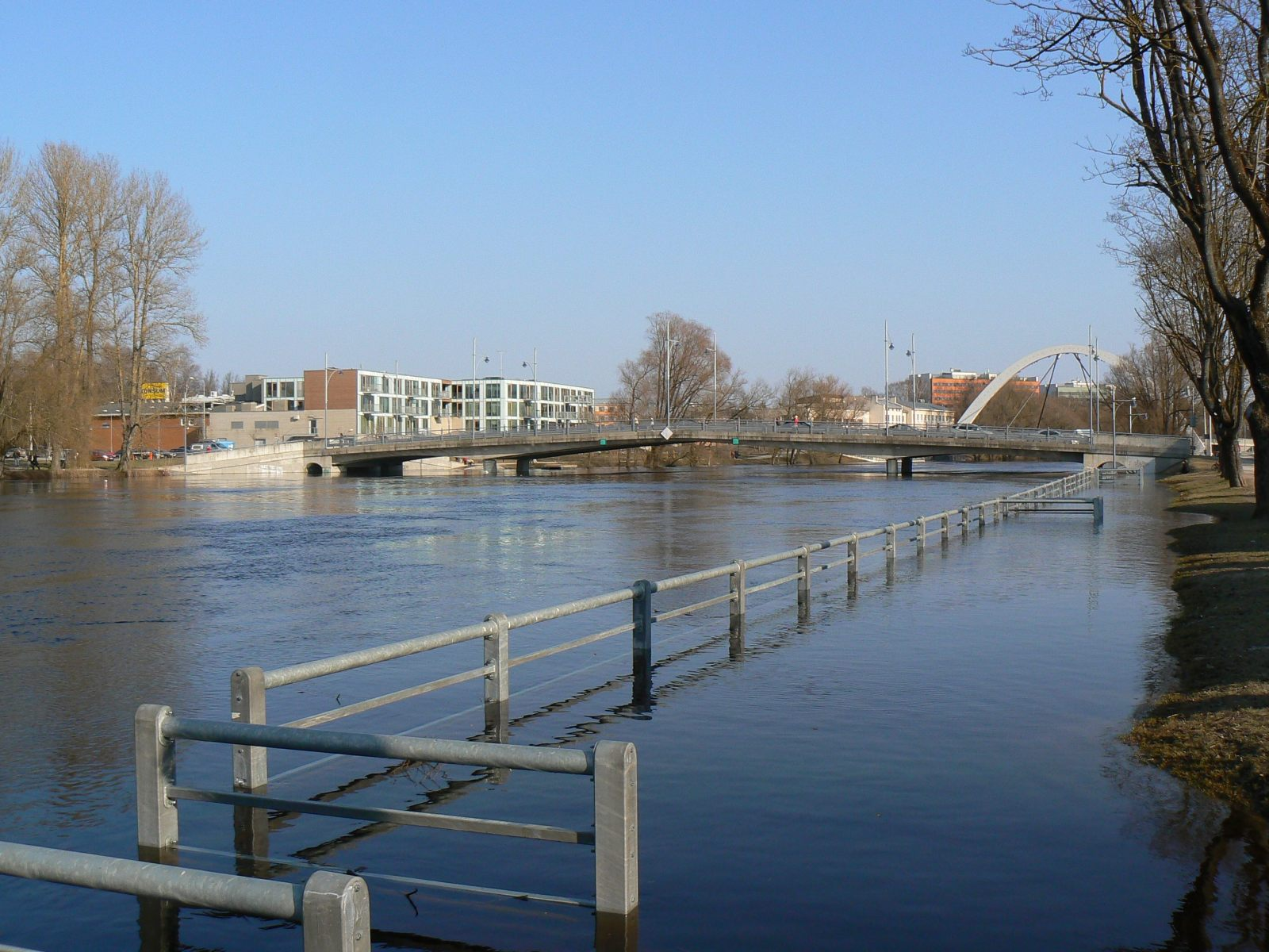 Kroonuaia bridge (in front), Emajõgi, Tartu, Estonia, high water apr 2010.y.